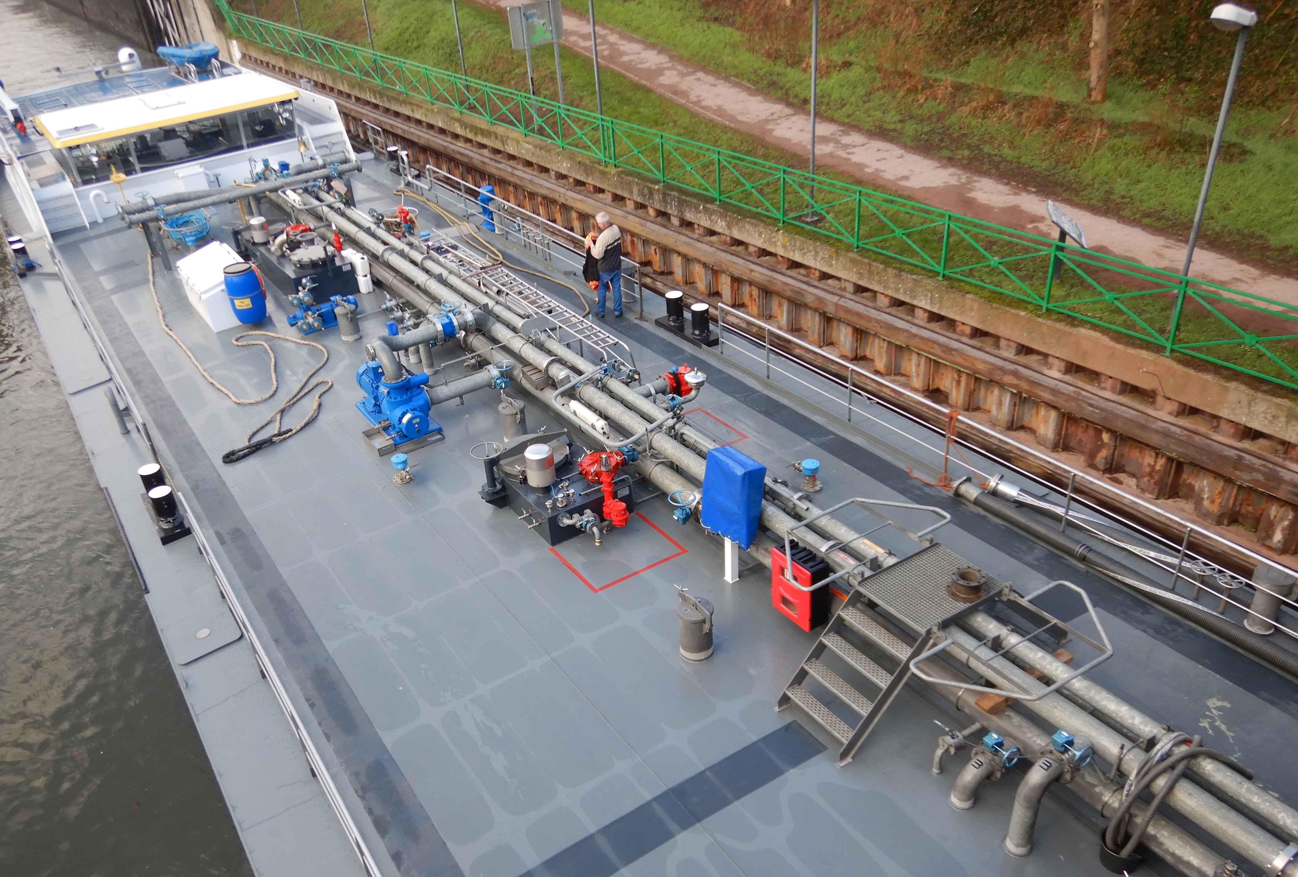 Barge-Tanker named "Leny II", sailing under the Dutch flag, built in 2013, 85m long, and 10m wide. (